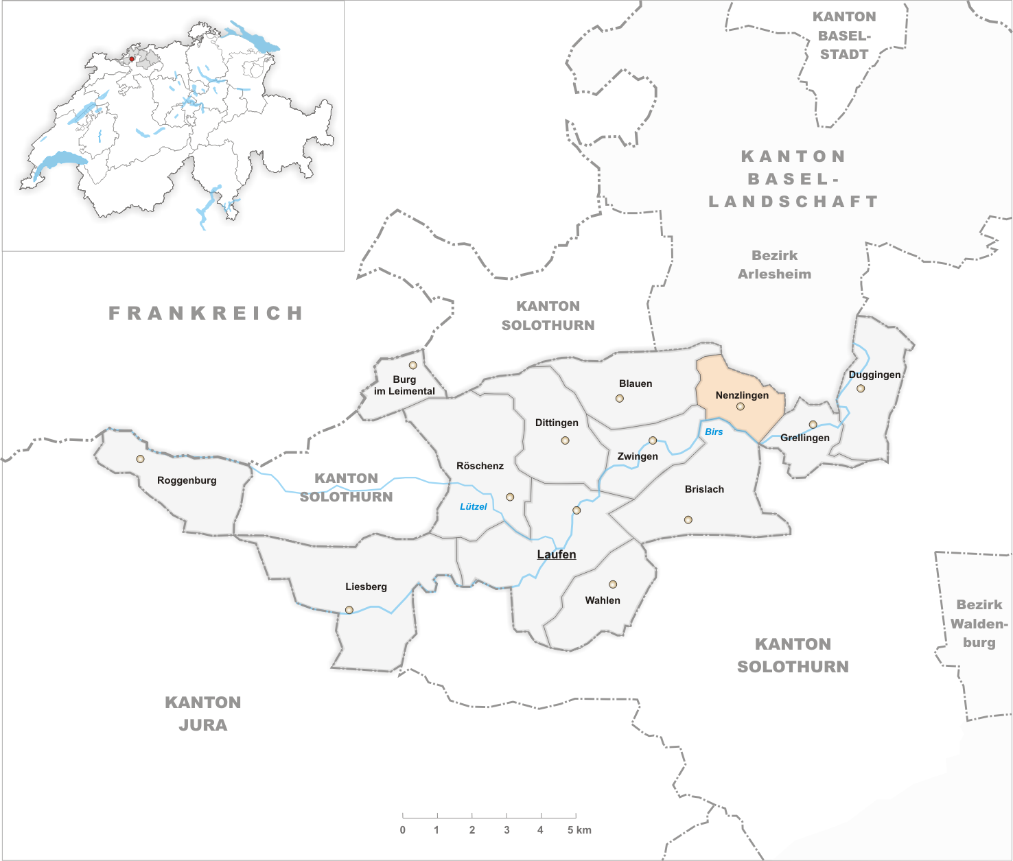 Municipality Nenzlingen